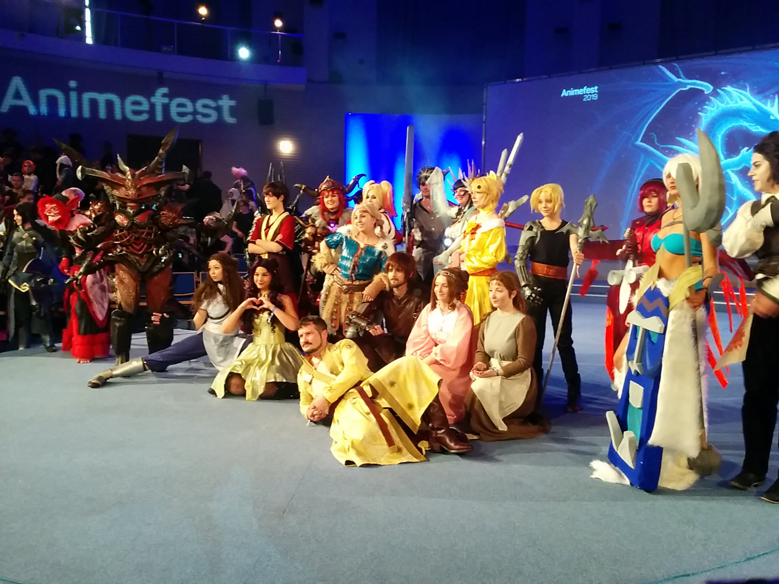 Cosplay competition at Animefest 2019 in Brno, Czechia.